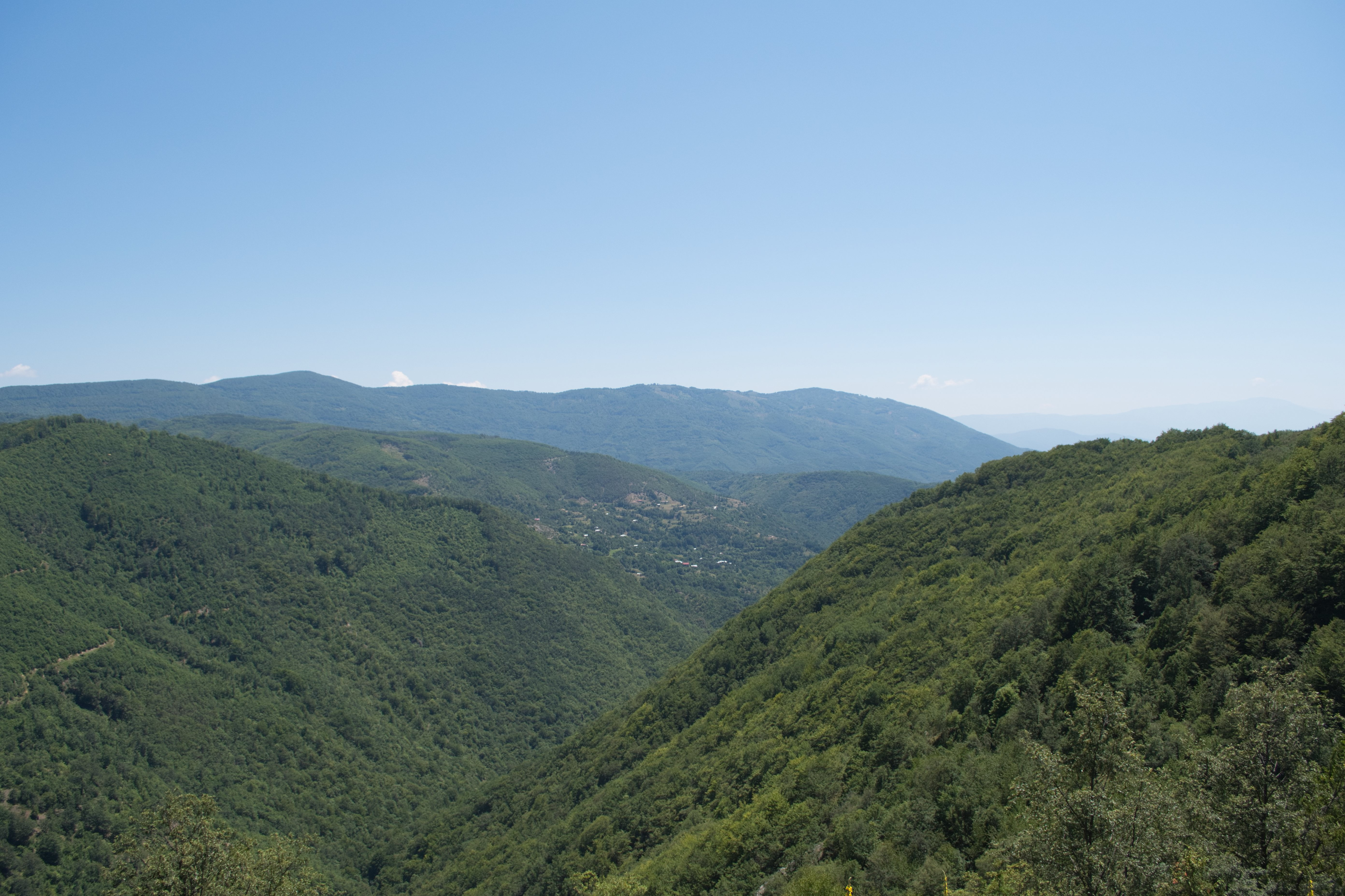 View of the village Zbaždi